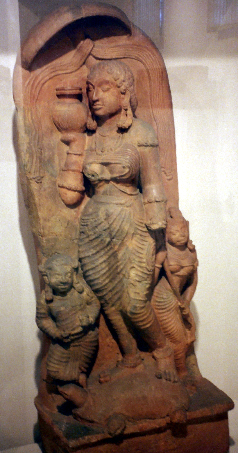 Yamuna. Gupta period, 5th Century AD. From Ahichchhatra, UP. Delhi National Museum, India. Yamuna personifies the Jumna river. Her upraised hand carries a pot which contains the life-giving waters. She is flanked by an attendant holding a parasol, and stands on a tortoise. Statues of Ganga and Yamuna were typically carved in matched pairs, on either side of a temple entrance, in order to bless the temple precincts with the fertility and abundance of their waters.